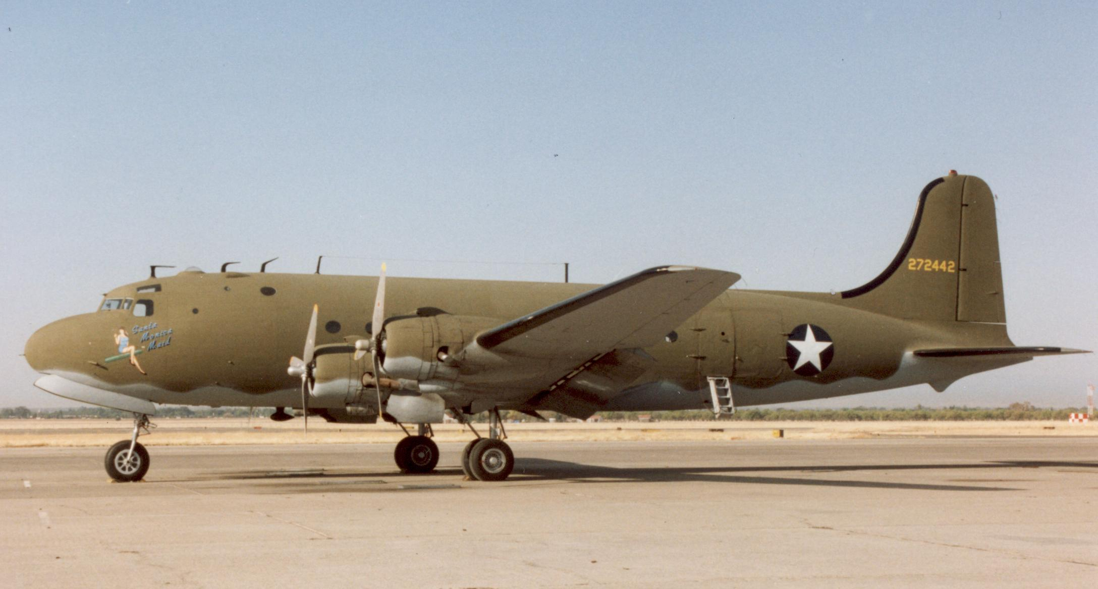 A Douglas C-54D Skymaster (c/n 10547) repainted for a movie in World War Two US Army Air Forces markings at Chico, California (USA) in 1992. This aircraft was delivered to the USAAF on 31 January 1945 as 42-72442 and was transferred to the RAF as a Skymaster CI in 1945 (serial KL977). The aircraft was operated by either No. 232 or 236 Squadrons Palam, India. Returned after the end of the war, it was transferred ot the U.S. Navy (R5D-3 BuNo 91994) and later modified as C-54Q. It was stored at the MASDC in 1970 and bought by Aero Union in 1974 (civil registration N62296, later N76AU "Spirit of America"). It was bought by Aero Flite Inc., Arizona (USA) in 1999 and by Brooks Fuel, Alaska (USA), in 2006 (N3045V). Nose art says "Santa Monica Maid."